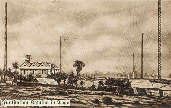 Radio relay transmitter at Kamina, Togo